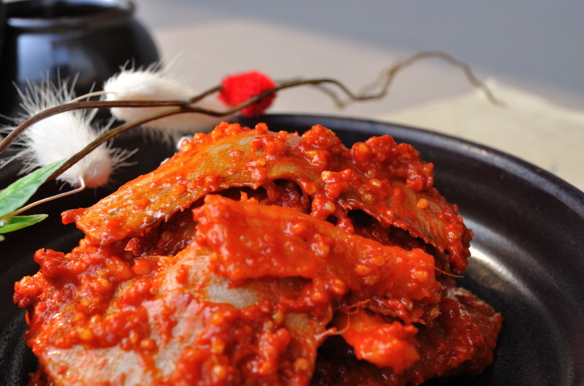 gajamisikhae (fermented righteye flounders)